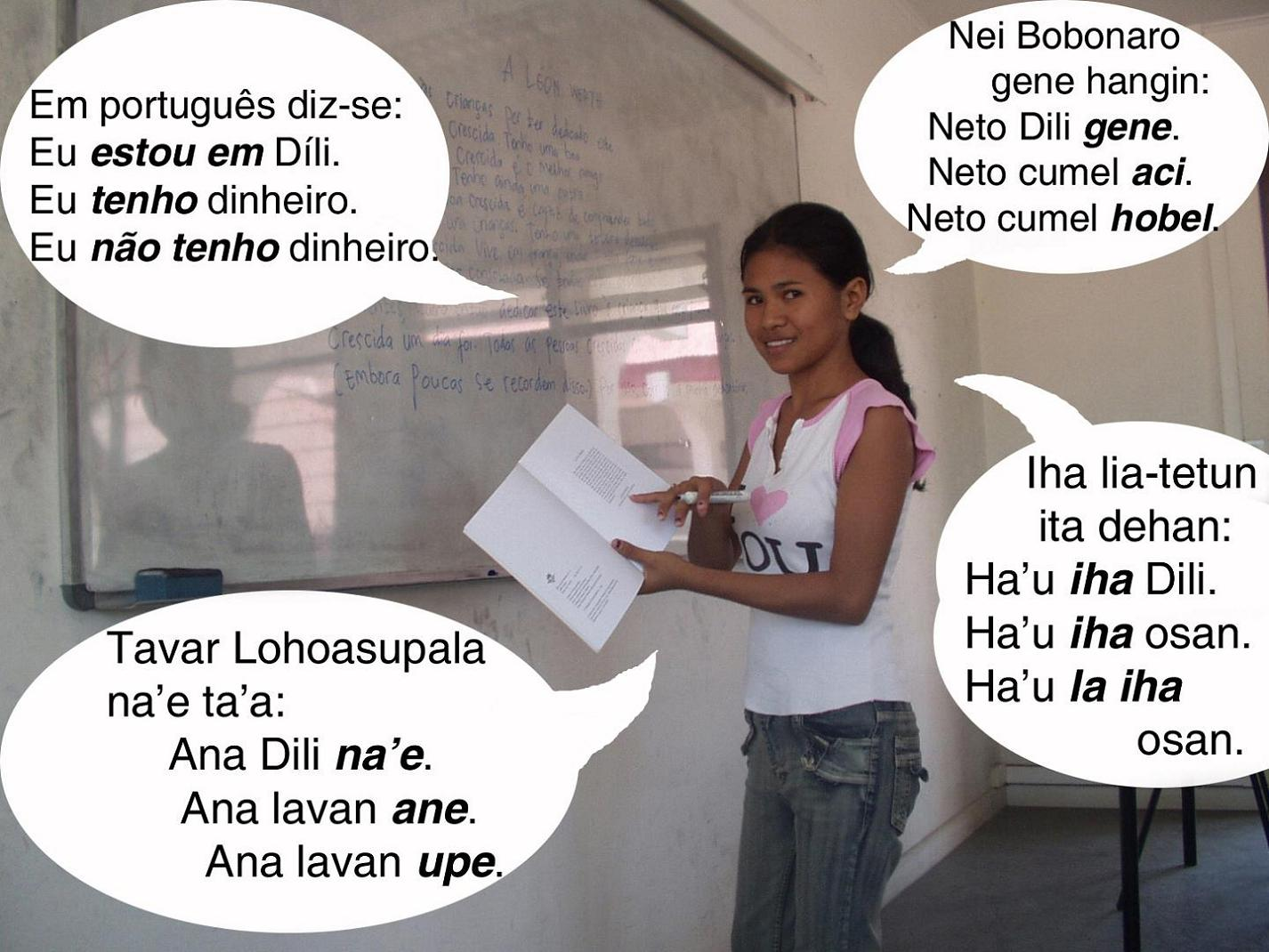 Photo & editing both by João Paulo T. Esperança. This photo was used as illustration in a Portuguese language course in Tetum, whose lessons used to be published weekly in the East Timorese newspaper Lia Foun. Person portrayed: Beatriz Cardoso dos Santos, an East Timorese girl speaking (starting left top following the clock) Portuguese, Bunak, Tetum, Fataluku.